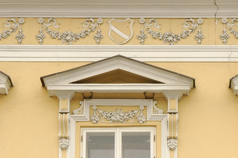 Building ornaments (unidentified location)